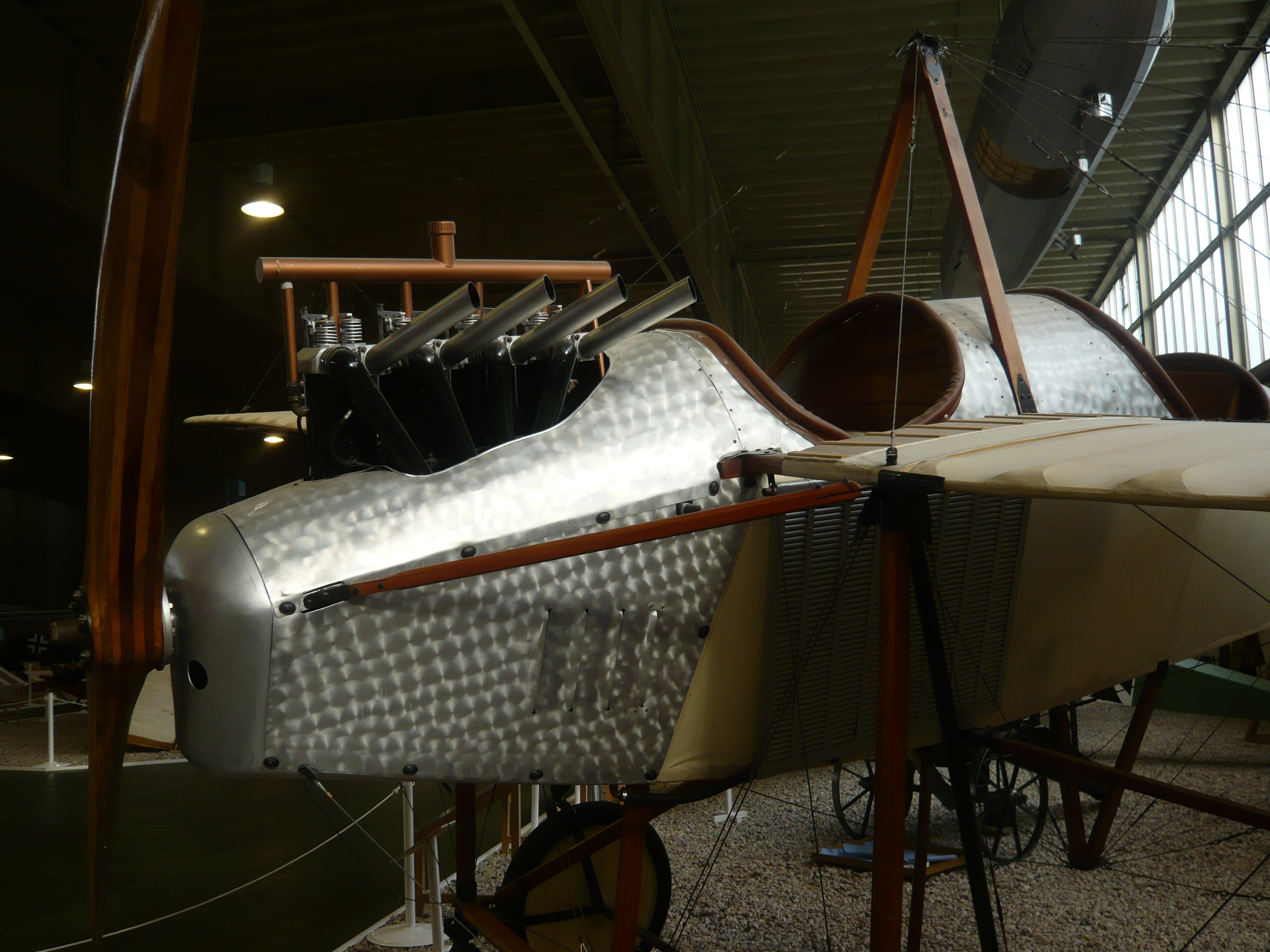 Rumpler Taube